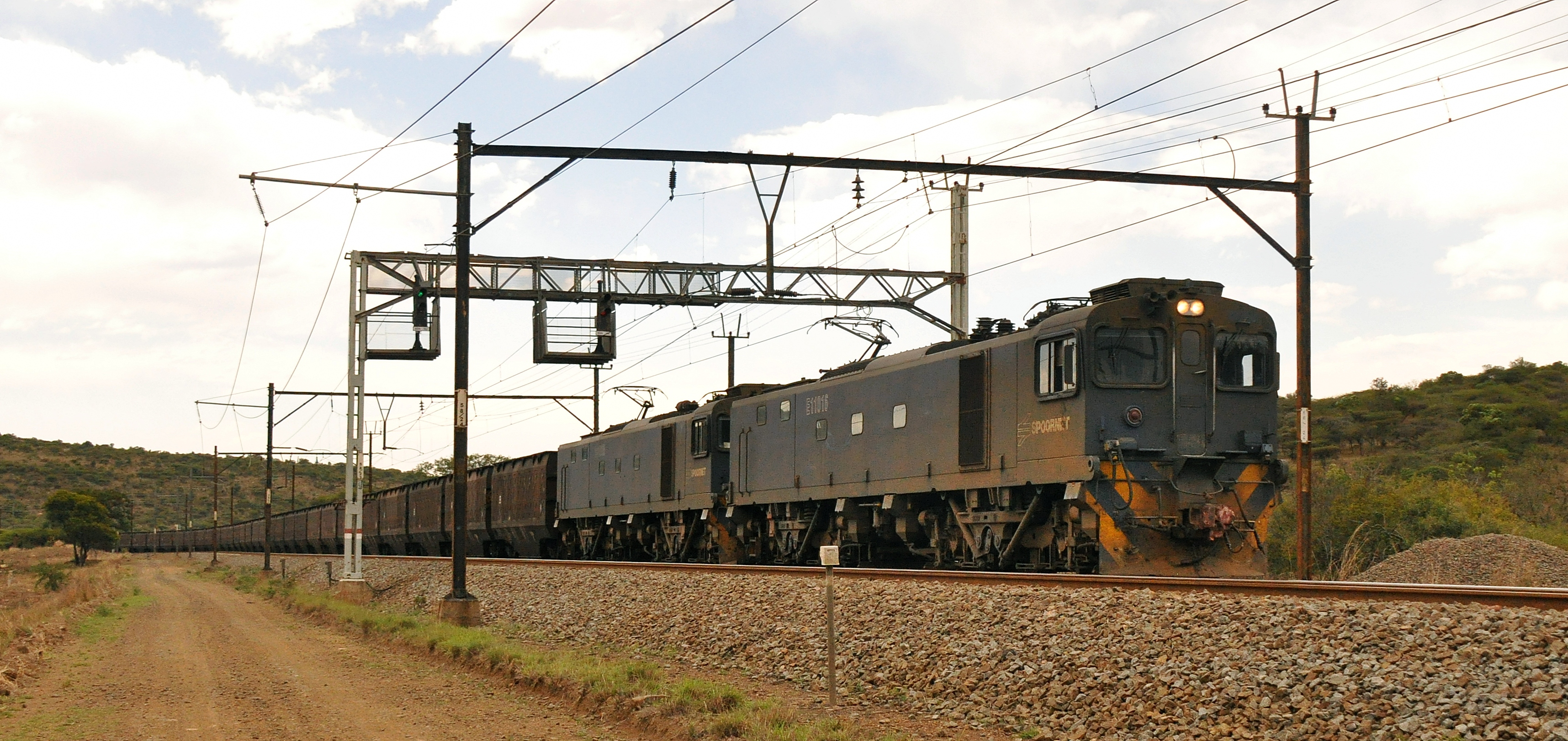 Loaded 100 wagon jumbo rake with 2 x 11E on the way to Richards Bay passes Bloubank station.